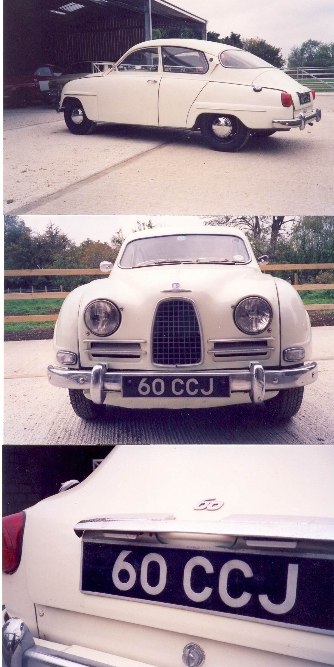 Saab 60 (del) (cur) 20:31, 17 April 2006 . . Ballista (Talk) . . 1117x2230 (1461394 bytes) (my own photo)